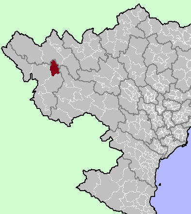 A map of Tủa Chùa District, Dien Bien Province, Vietnam.